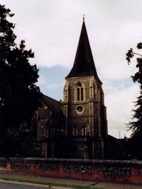 Steeple of Holy Trinity parish church, Bracknell, Berkshire, seen from the east